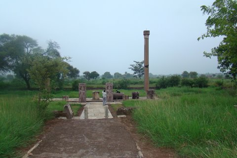 Victory tower of Yashodharman at Sondani in Mandsaur district, Madhya Pradesh, India. 24.041335N 75.091848E